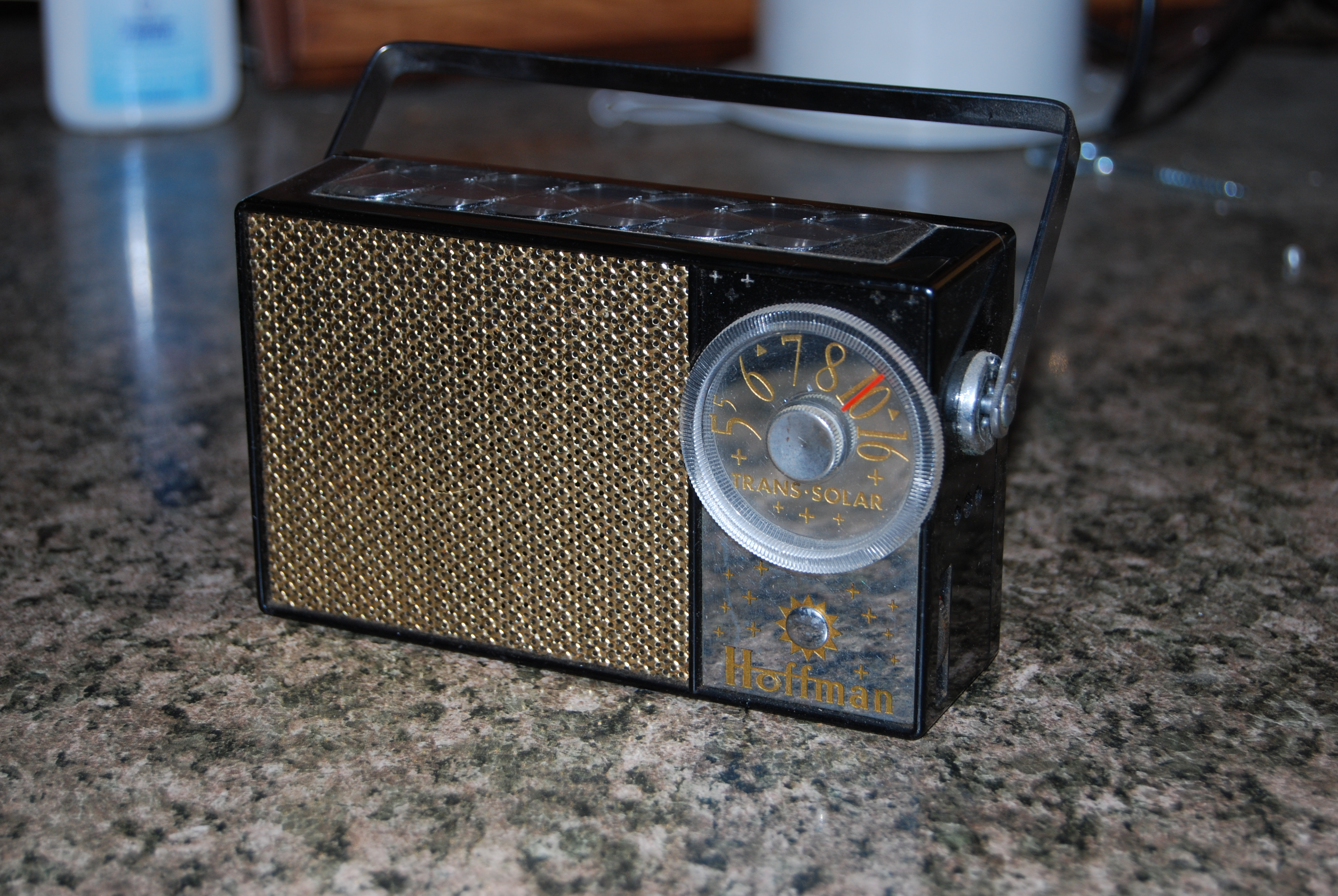 Hoffman model KP706 Transolar Radio (1959). This transistor radio featured an array of silicon solar cells on top of the case, allowing it to be powered either by sunlight or batteries. Hoffman Electronics made the photovoltaic cell a marketable device. Hoffman solar or photovoltaic cells were used on the United States first satellite, Vanguard 1, in 1958. Hoffman expanded solar cell applications to the Consumer Products Division.